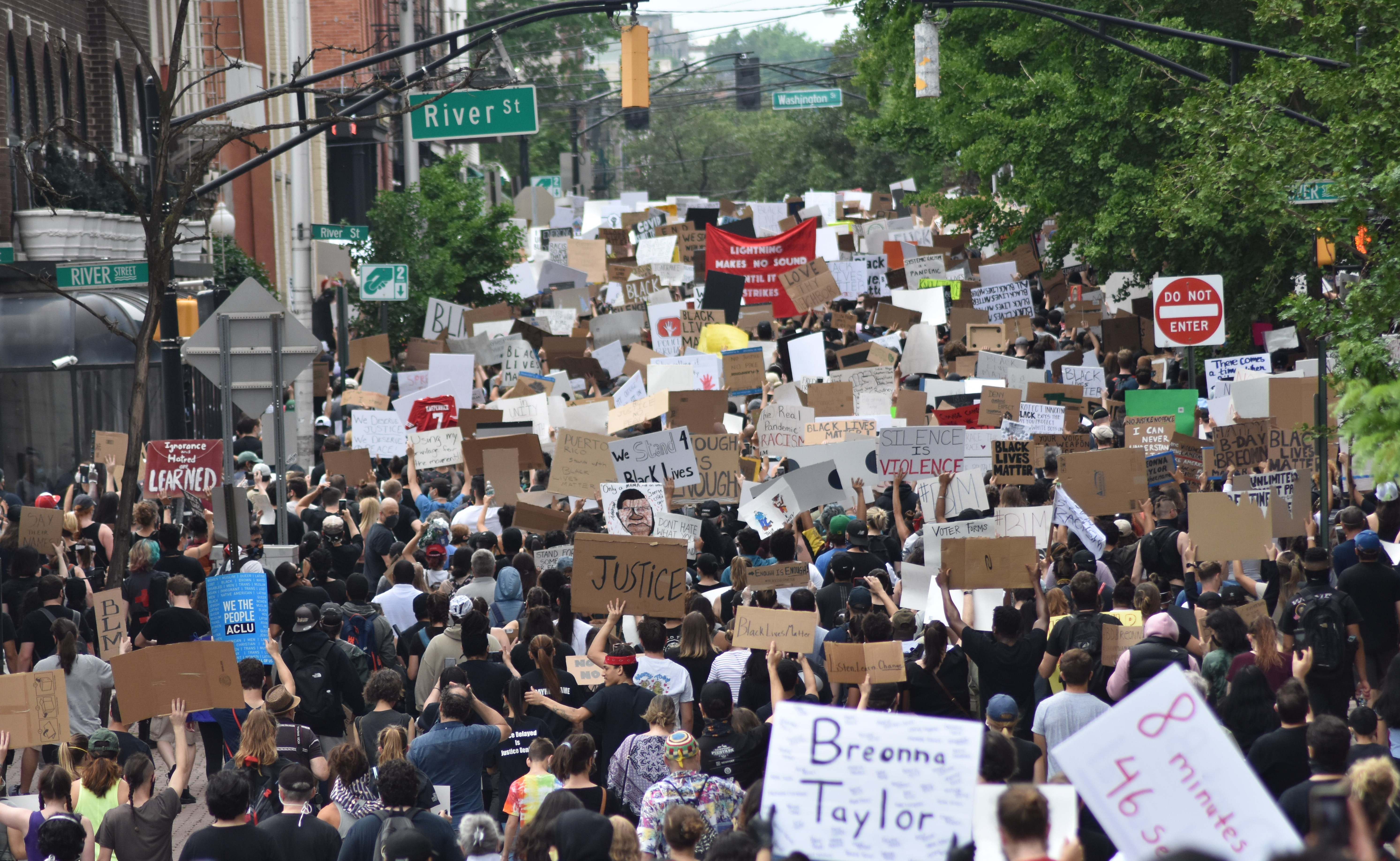 George Floyd protesters filling the blocks from Pier A Park to Hoboken City Hall on June 5, 2020